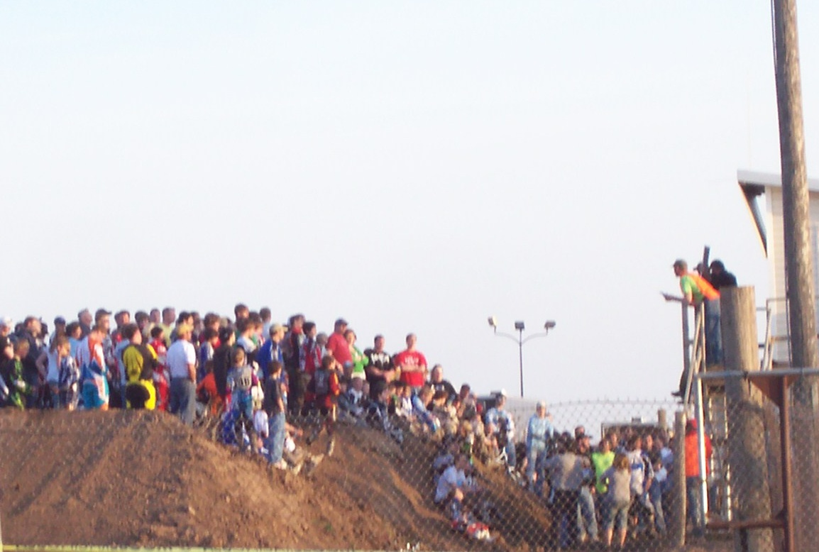 A drivers meeting before a motocross event at Gravity Park USA in Chilton, Wisconsin.